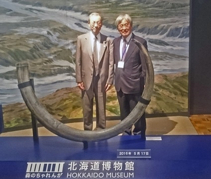 Kunihiko Tanabe, Consul-General in Calgary, met Shūzō Ishimori, Director of Hokkaido Museum, at Hokkaido Museum in Sapporo City, Hokkaidō on May, 2016.